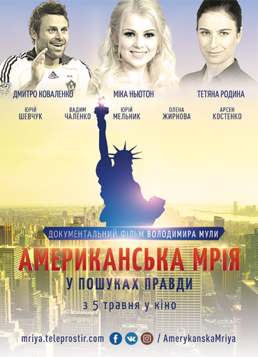 Poster of the American Dream. In Search of the Truth documentary